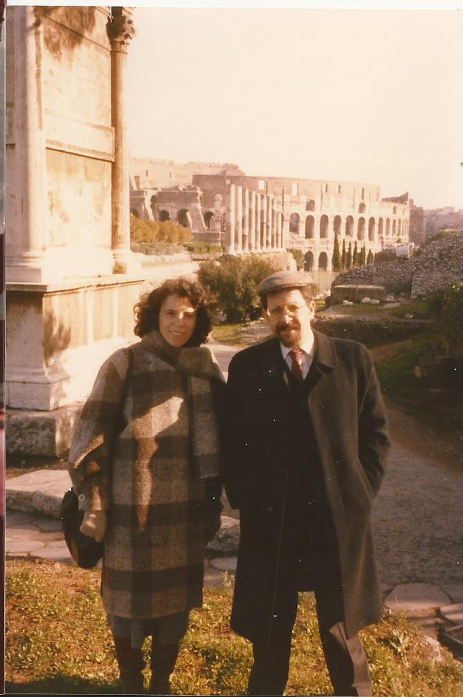 Rabbi Ahron Daum and his future Rebbetzin, Miss Francine Frenkel, visiting historical Rome in a heritage tour during their engagement.